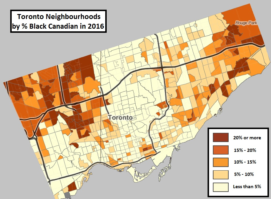 Concentration of Black Canadians in Toronto Census Tracts according to Statistics Canada (2016)